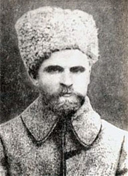 General Mykhailo Omelianovych-Pavlenko ,Soldier of Ukrainian Army , Ally of Polish Army during Polish-Soviet War in 1920